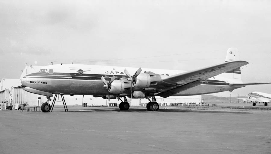 Japan Air Lines DC-6A "City of Nara" at the San Francisco Airport United Air Lines maintenance base in March 1954.